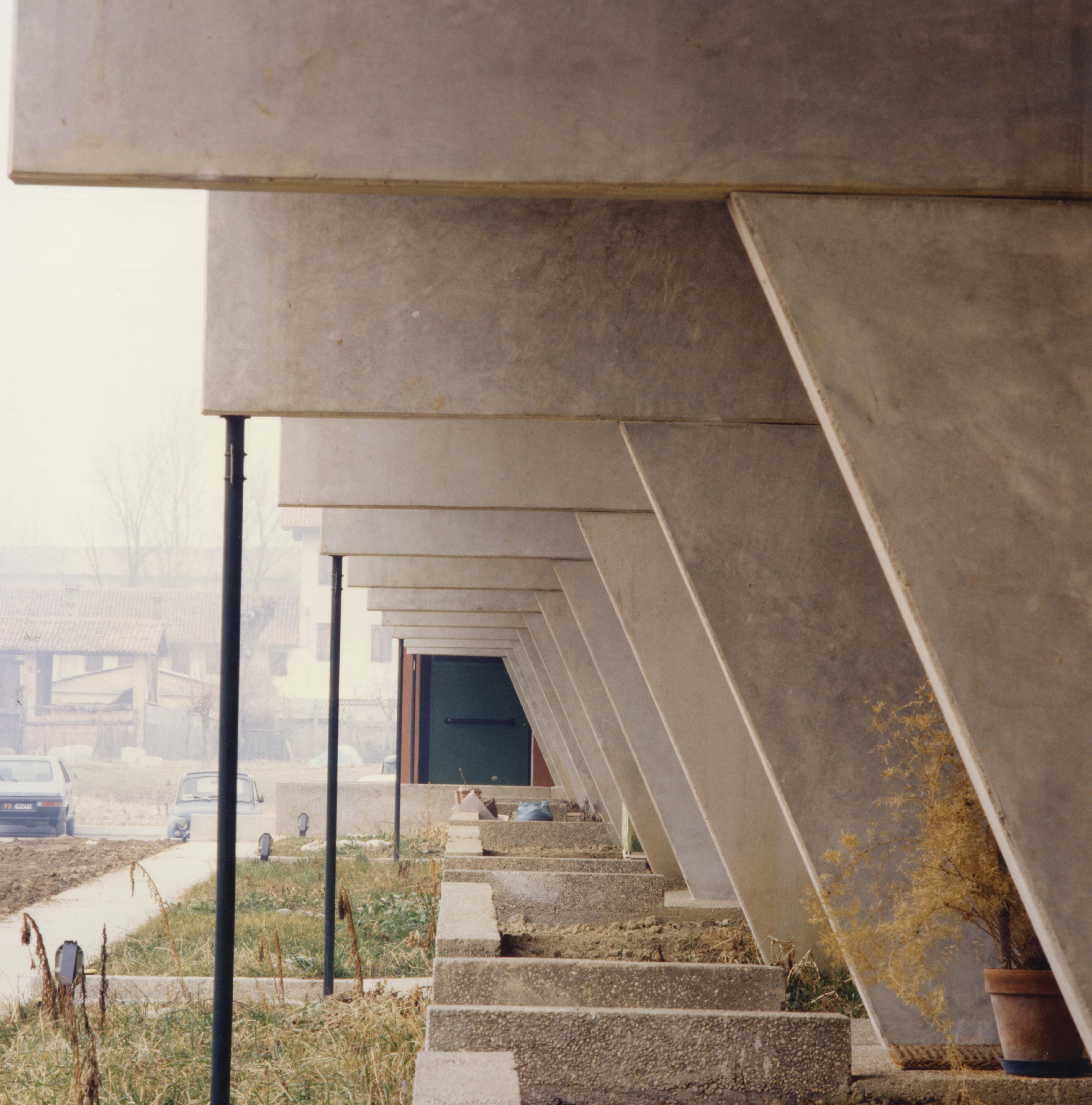 Padua Buildings